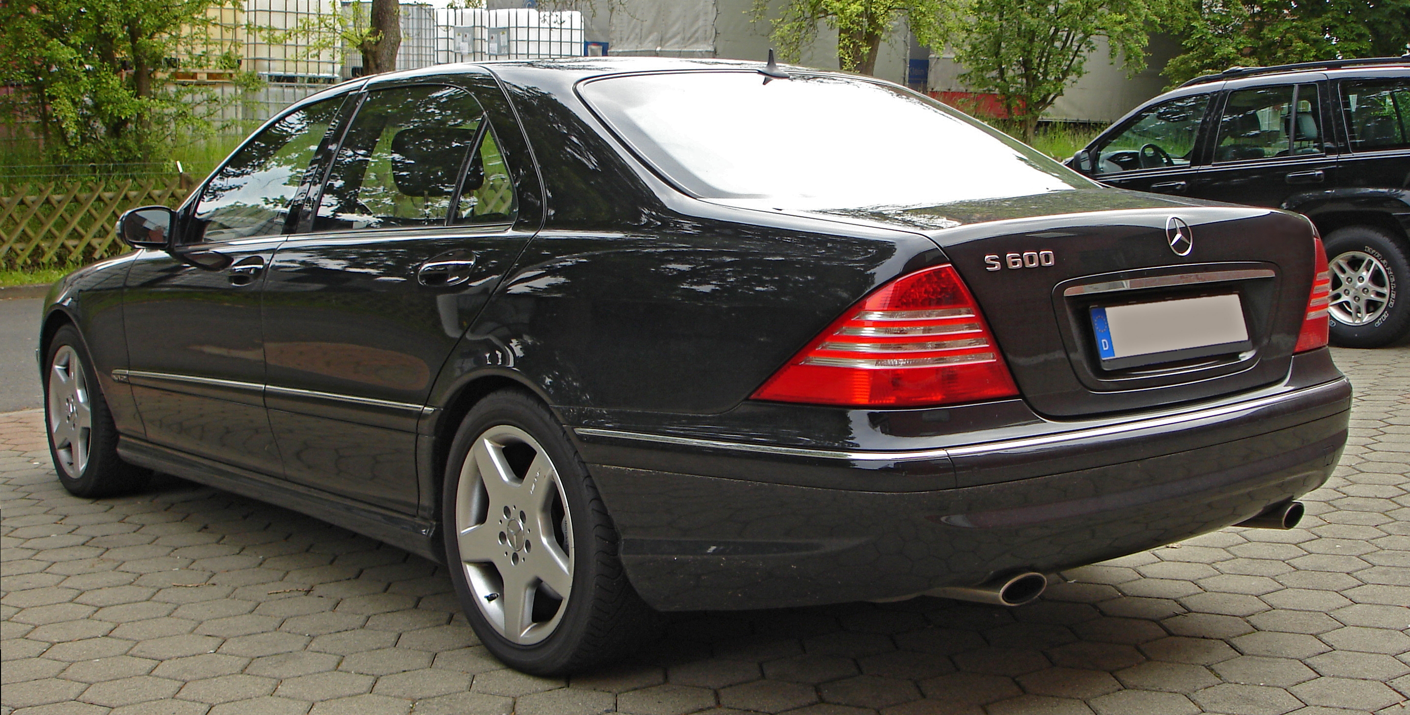 Mercedes S600 W220 rear